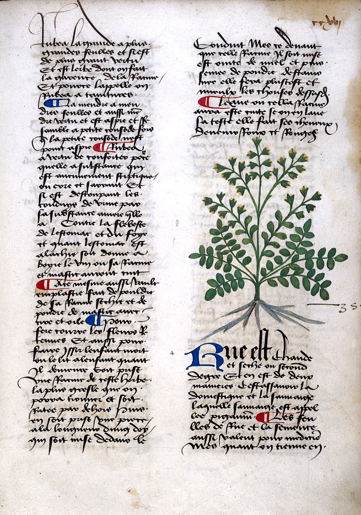 Two columns of text and a picture of a plant. Archives & Manuscripts Keywords: Materia Medica; Matthaeus Platearius